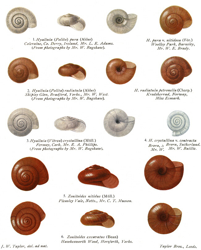 TaylorMonographHyalina